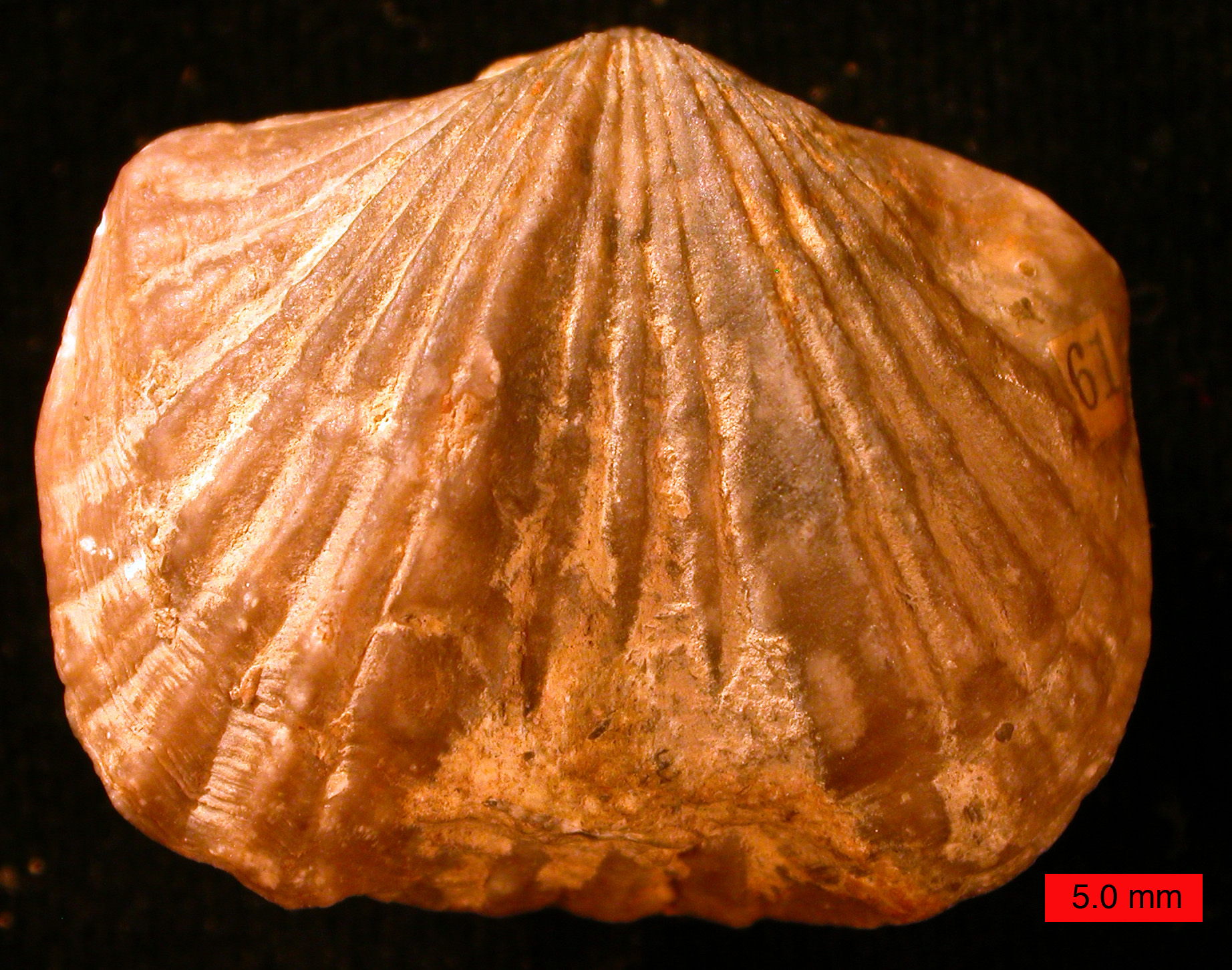 Platystrophia ponderosa, Maysvillian (Upper Ordovician) near Madison, Indiana. Now Vinlandostrophia ponderosa (Foerste, 1909); see: Zuykov, M.A. and Harper, D.A.T. 2007. Platystrophia (Orthida) and new related Ordovician and Early Silurian brachiopod genera. Estonian J. Earth Sci. 56: 11-34.